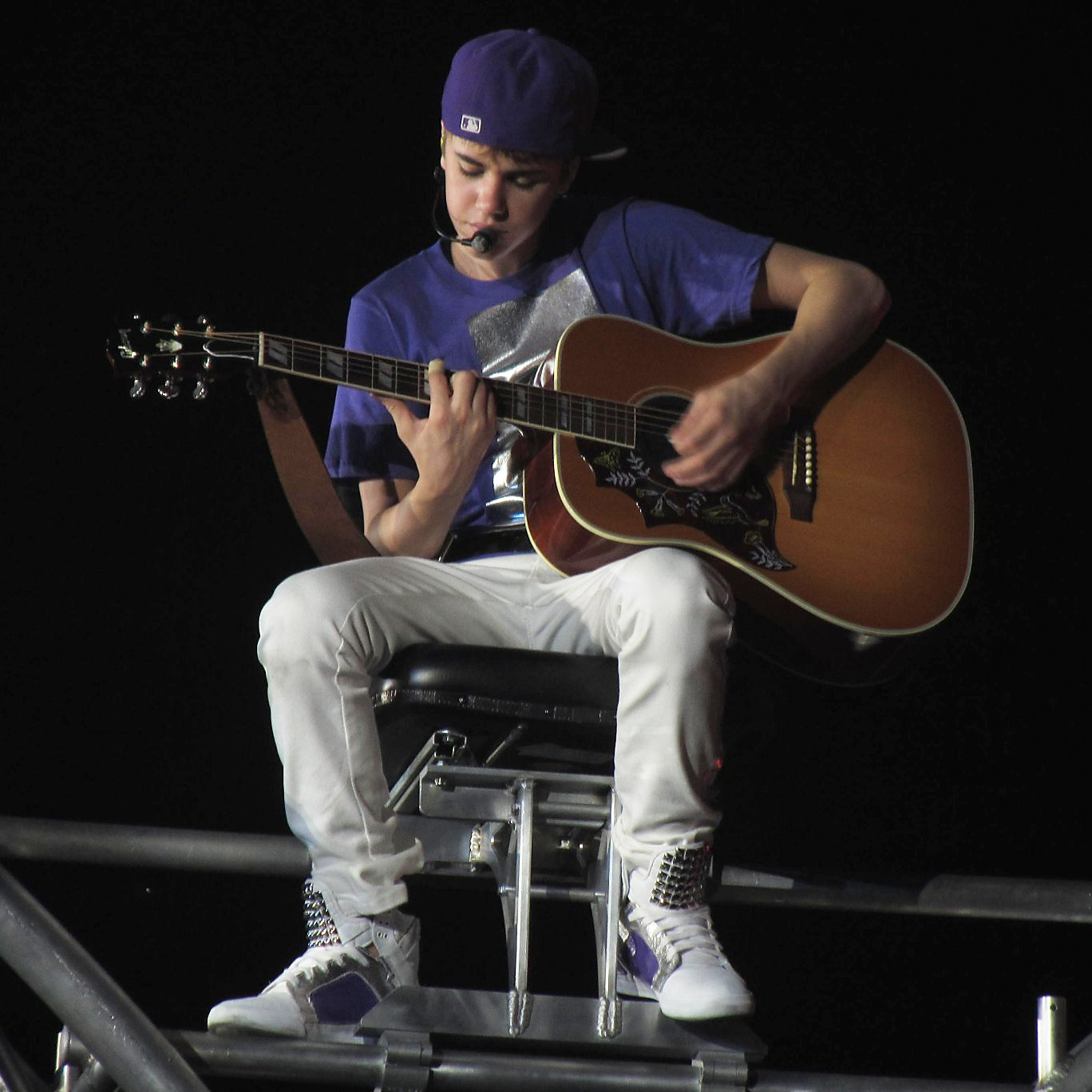 Justin Bieber performing "Favorite Girl" in Zurich, Switzerland.